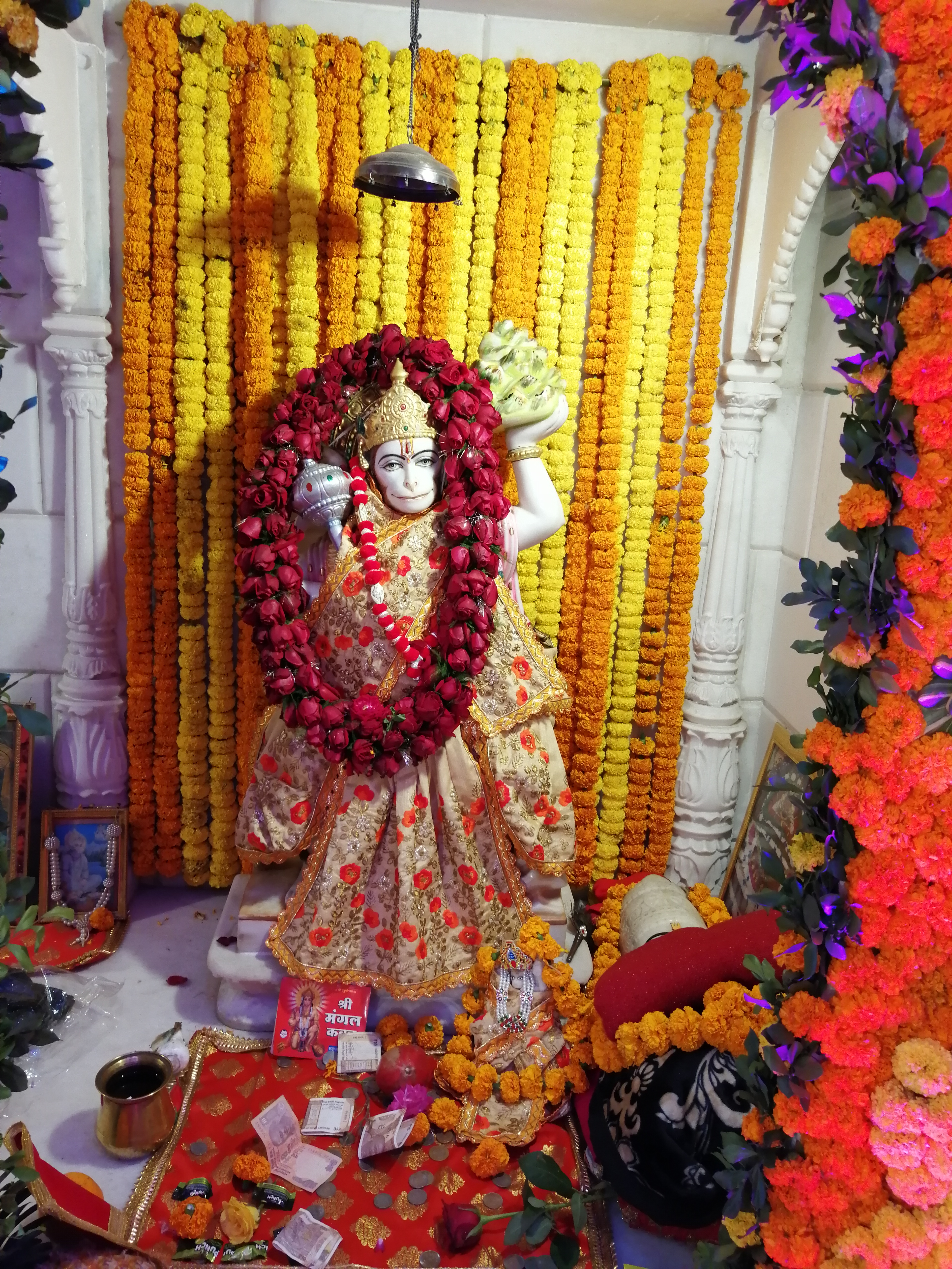 Shree balaji 01.01.2019